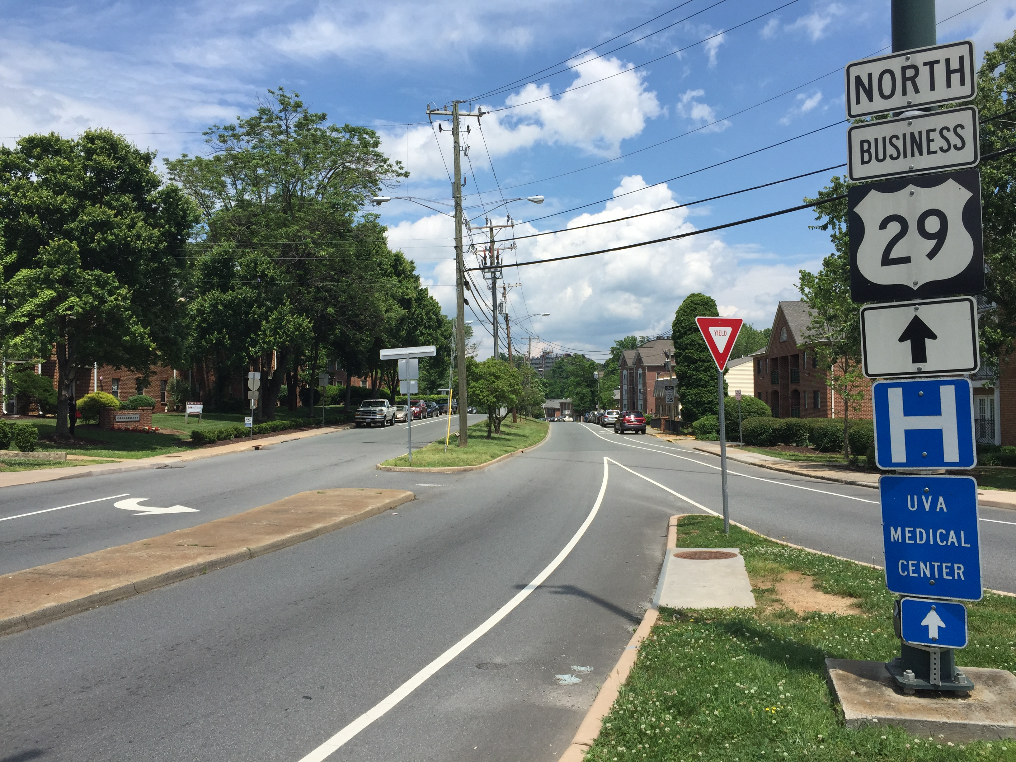 View north along U.S. Route 29 Business (Jefferson Park Avenue) at Maury Avenue in Charlottesville, Virginia